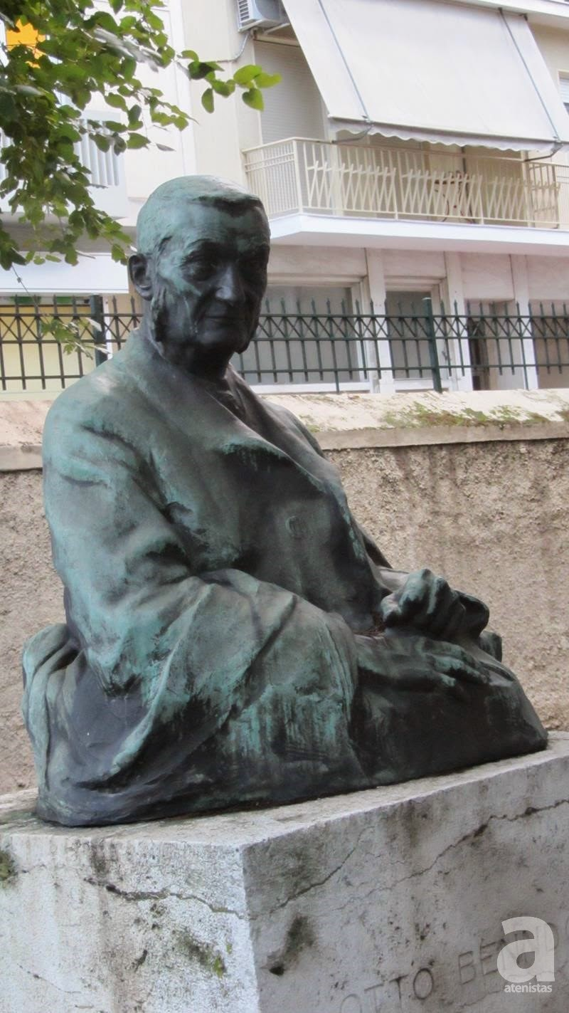 Austrian sculptor Hella Unger (1875-1932). Monument of Austrian archeologist Otto Benndorf (1838-1907) in Athens, Greece.